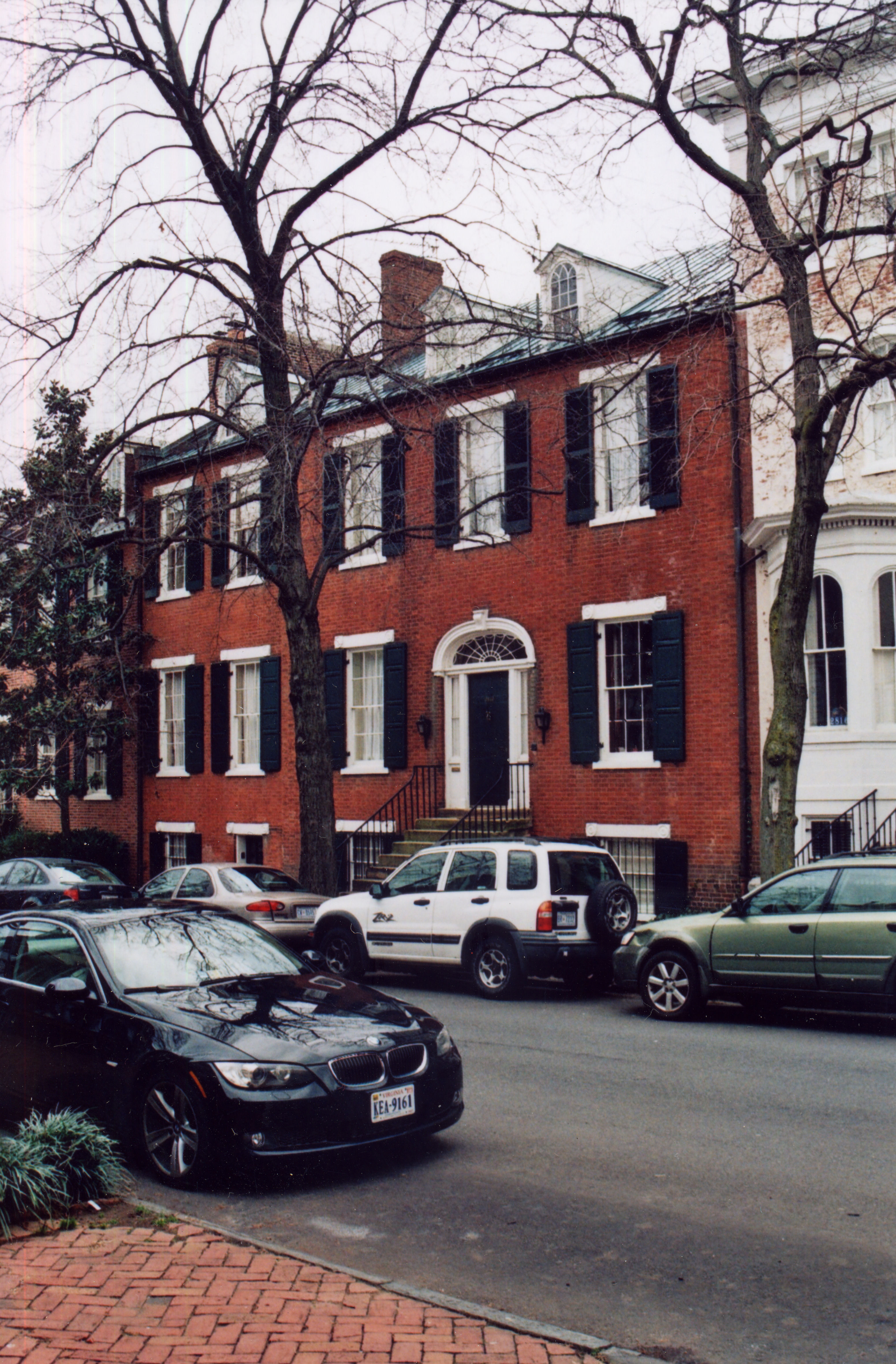 House of Mihail Farcasanu in Georgetown, Washington DC